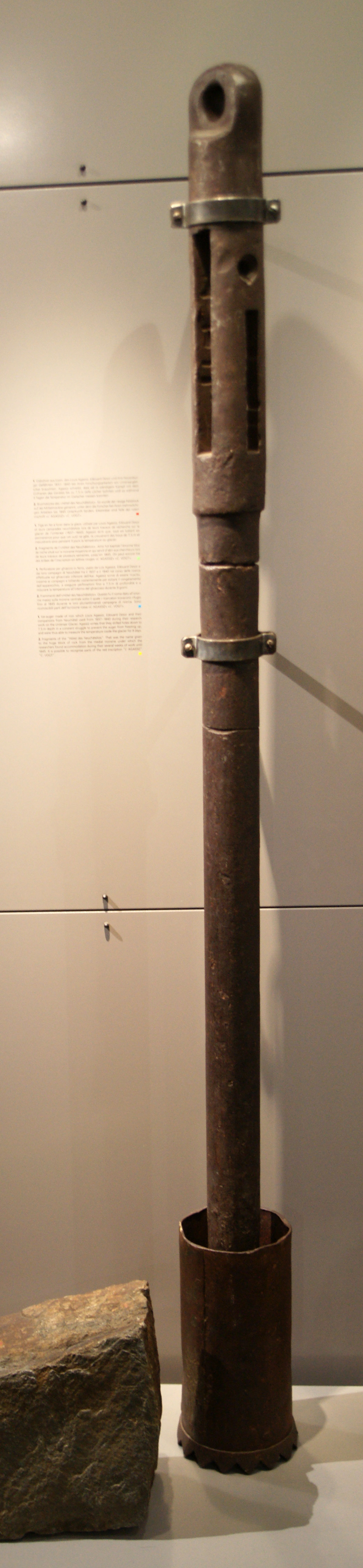 Iron ice auger used by Louis Agassiz, Pierre Jean Édouard Desor and companions for research on the Unteraar glacier in 1837-40.